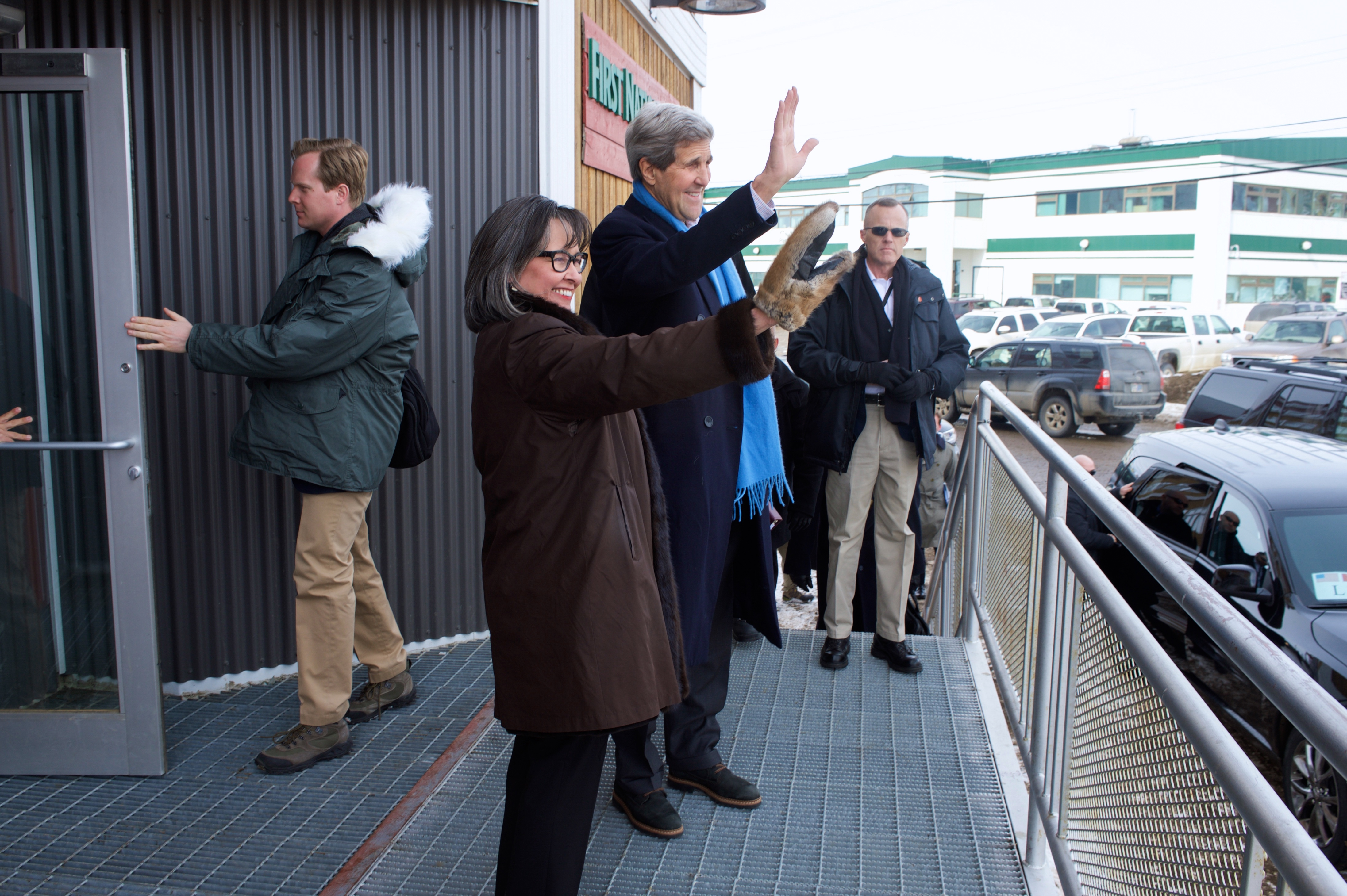 U.S. Secretary of State John Kerry and Arctic Council Chairman Leona Aglukkaq of Canada wave to people in her hometown of Iqaluit, Canada, on April 24, 2015, before a meeting just below the Arctic Circle of the Arctic Council, whose chairmanship the United States will assume the next two years. [State Department Photo/Public Domain]